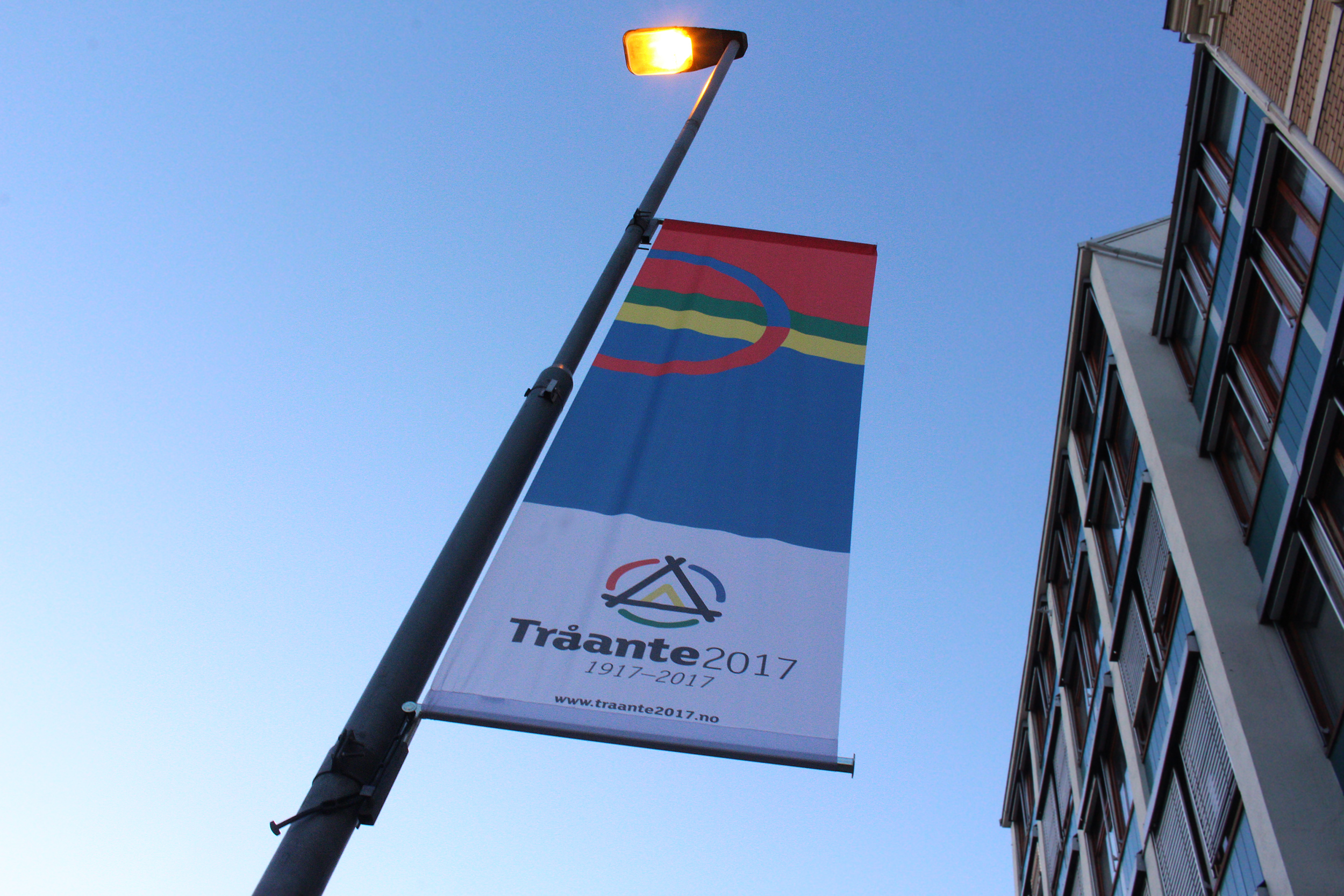 Banners for Tråante 2017 in Olav Tryggvason street. 100th Anniversary of first congress for the Sami people, in Trondheim. Great celebration in Trondheim, February 2017. The Sami Parliament in cooperation with Trondheim municipality, Sør-Trøndelag county municipality and Nord-Trøndelag county municipality.